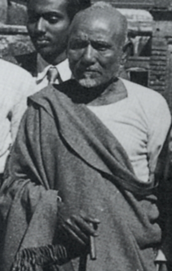 Allauddin Khan (Bangla: ওস্তাদ আলাউদ্দীন খান, also known as Baba Allauddin Khan) (1862 – 1972), was an Indian sarod player and multi-instrumentalist and one of the greatest music teachers of the 20th Century.